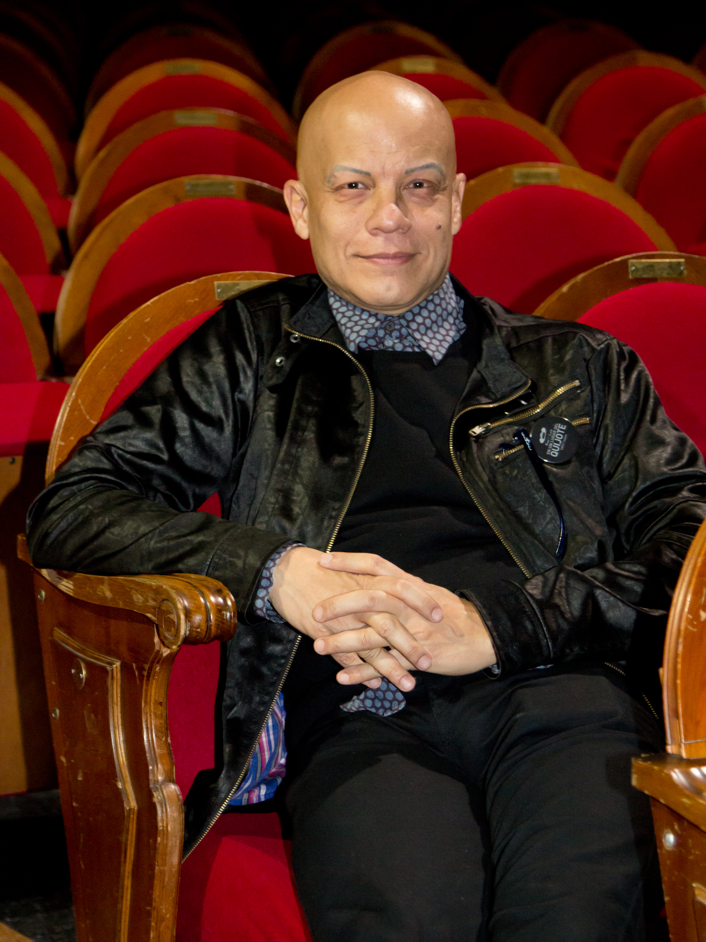 Yayo Cáceres, director, and sometimes also actor, of the theatre company Ron Lalá (portrait at the Pavón Theatre, Madrid, Spain).